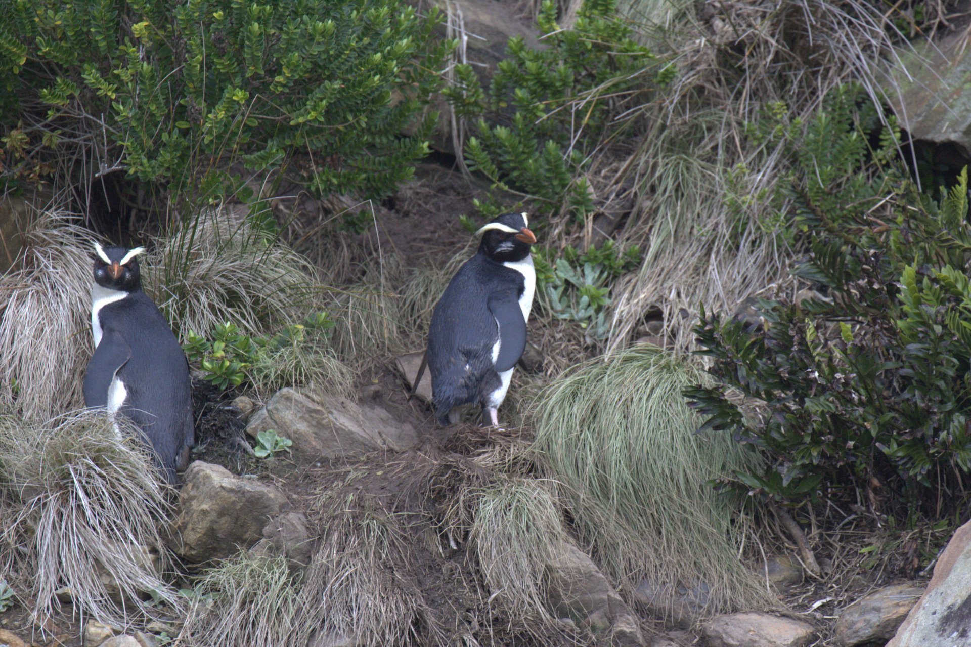 Fiordland Crested Penguin, Munro Beach